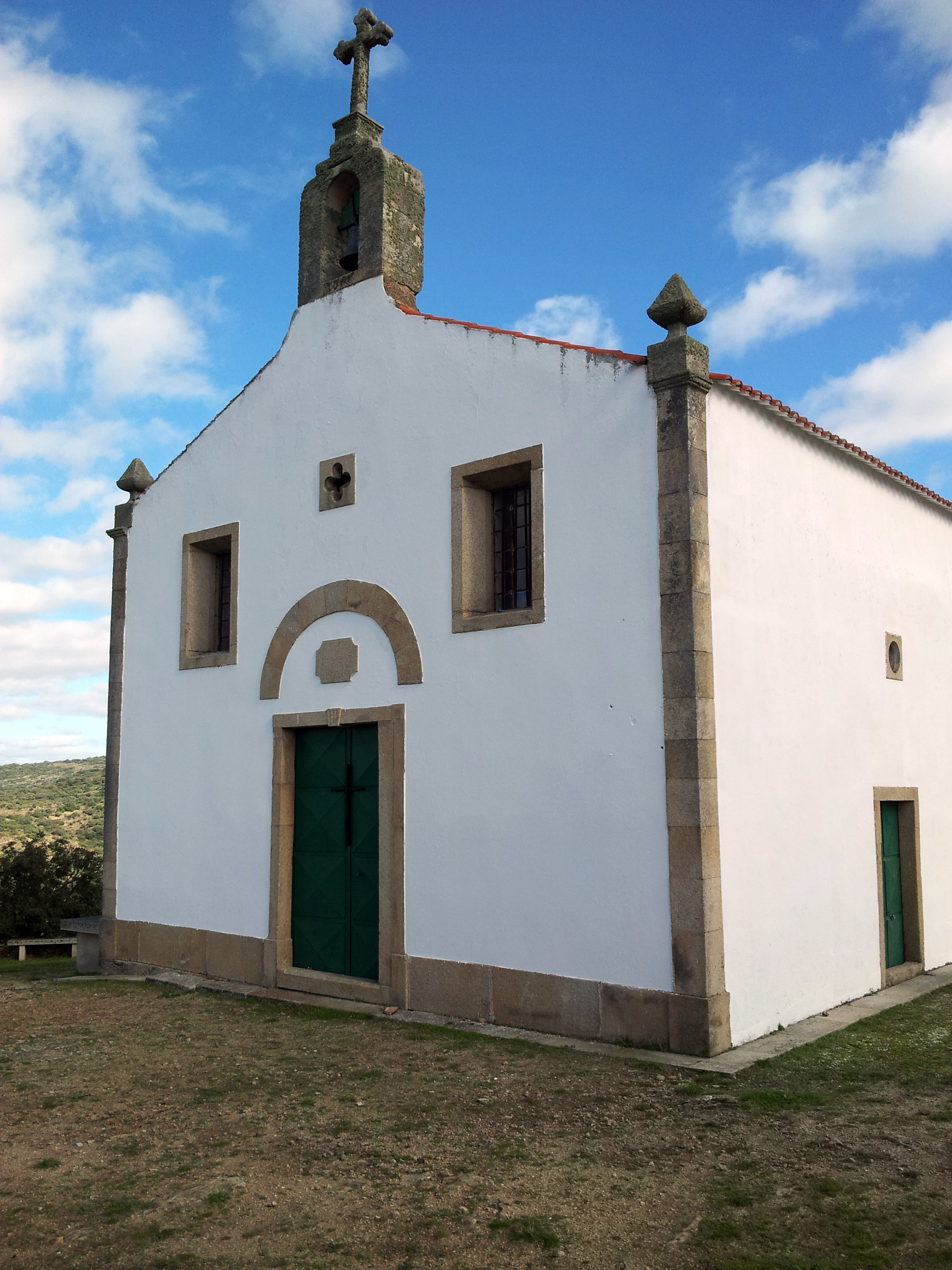 Chapel of Santo André in Almofala (Guarda, Portugal).